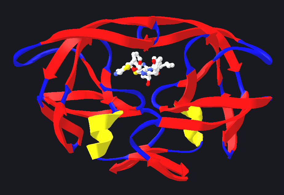 HIV protease with the protease inhibitor ritonavir bound in its active site. Created from PDB 1HXW